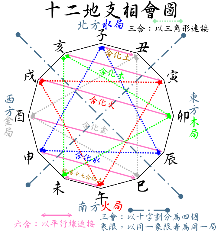 How earthly branches associate each other.